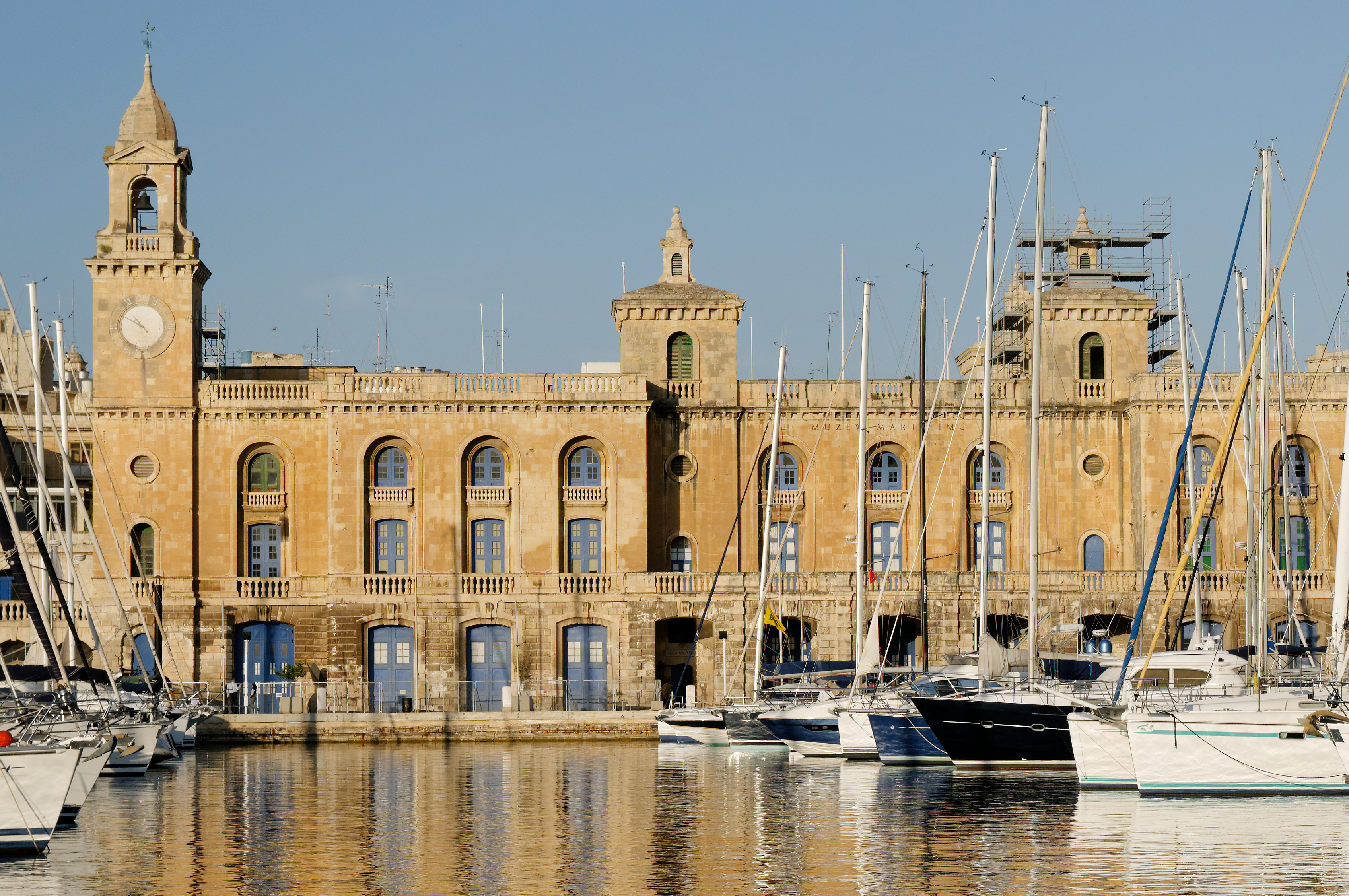 Façade of the Malta Maritime Museum, Vittoriosa, Malta.